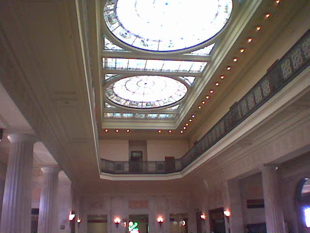 Interior of Penn Station, Baltimore.